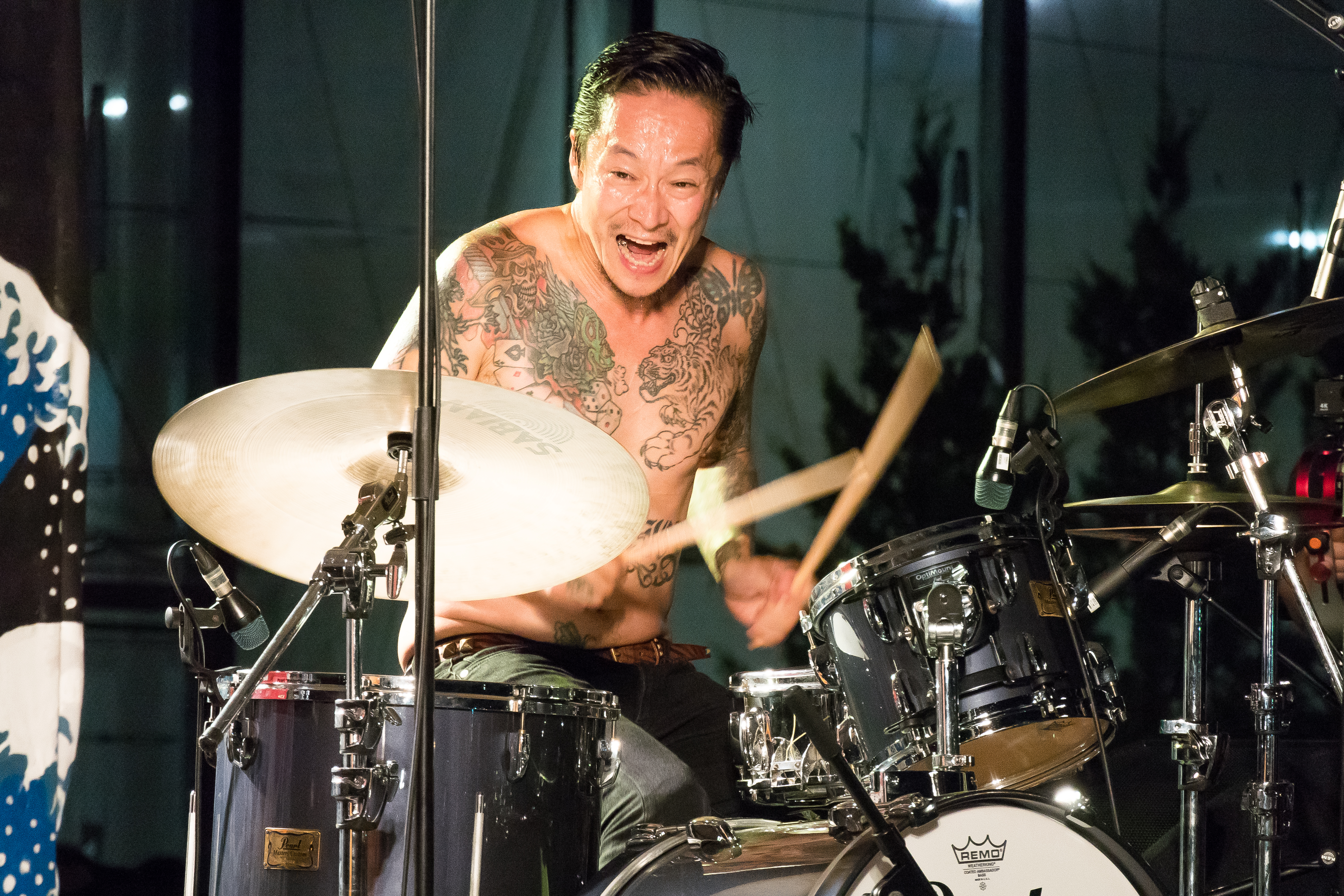 Tatsuya Nakamura in concert in Tokyo, Japan, 14 August 2016